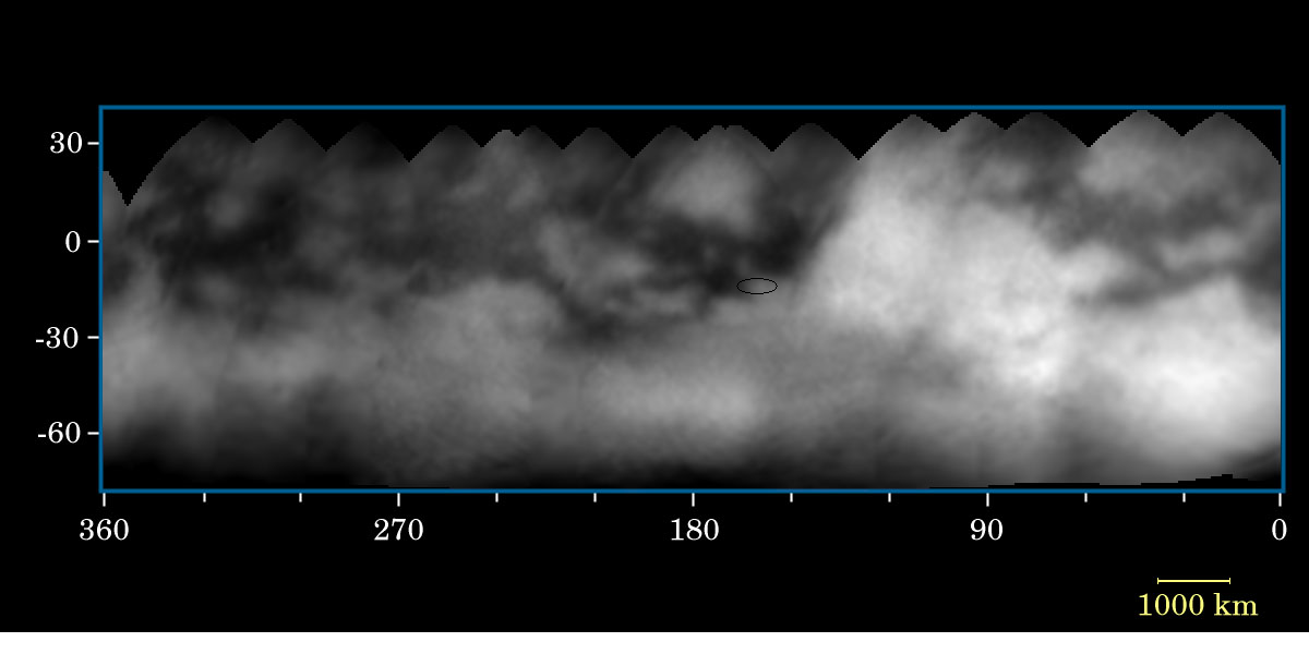 Approximate landing site of Huygens probe on Titan